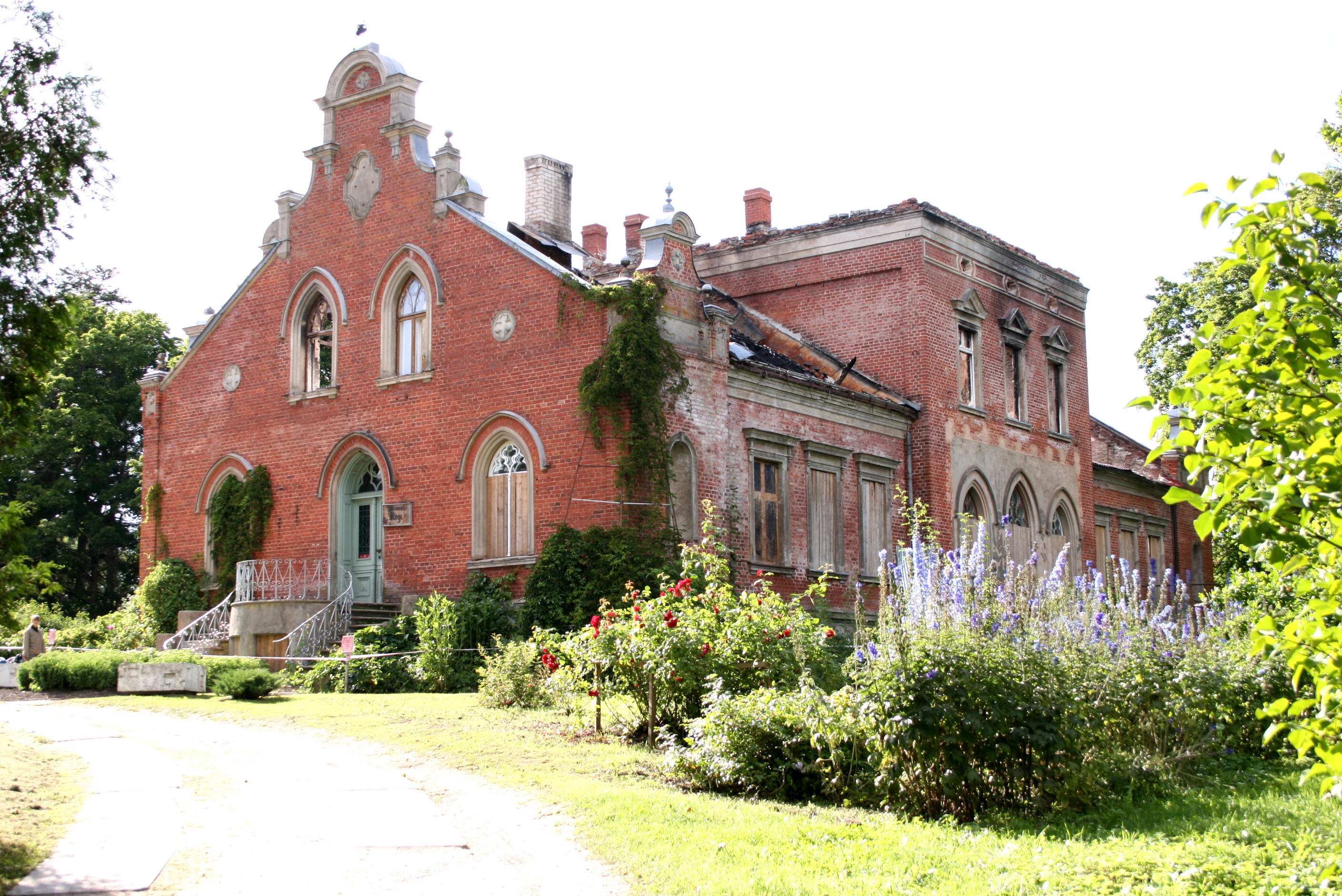 Reģi ManorLatviešu: Reģu muižas pils